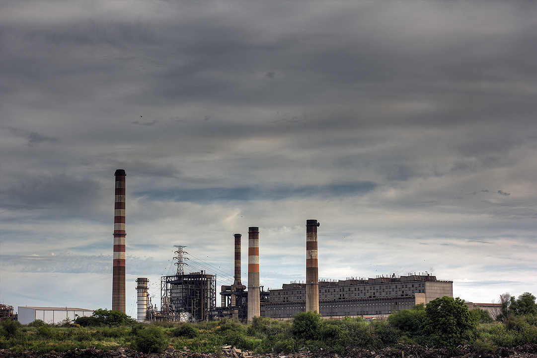 HDR image from "Central Costanera" thermal power station, view from wildlife reserve, Buenos Aires Argentina.